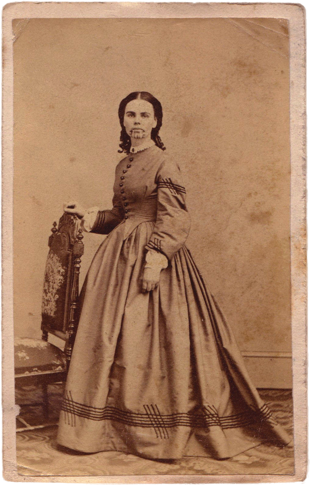 Carte de Visite of Olive Oatman 1838–1903, by Benjamin F. Powelson, 58 State St, Rochester, NY